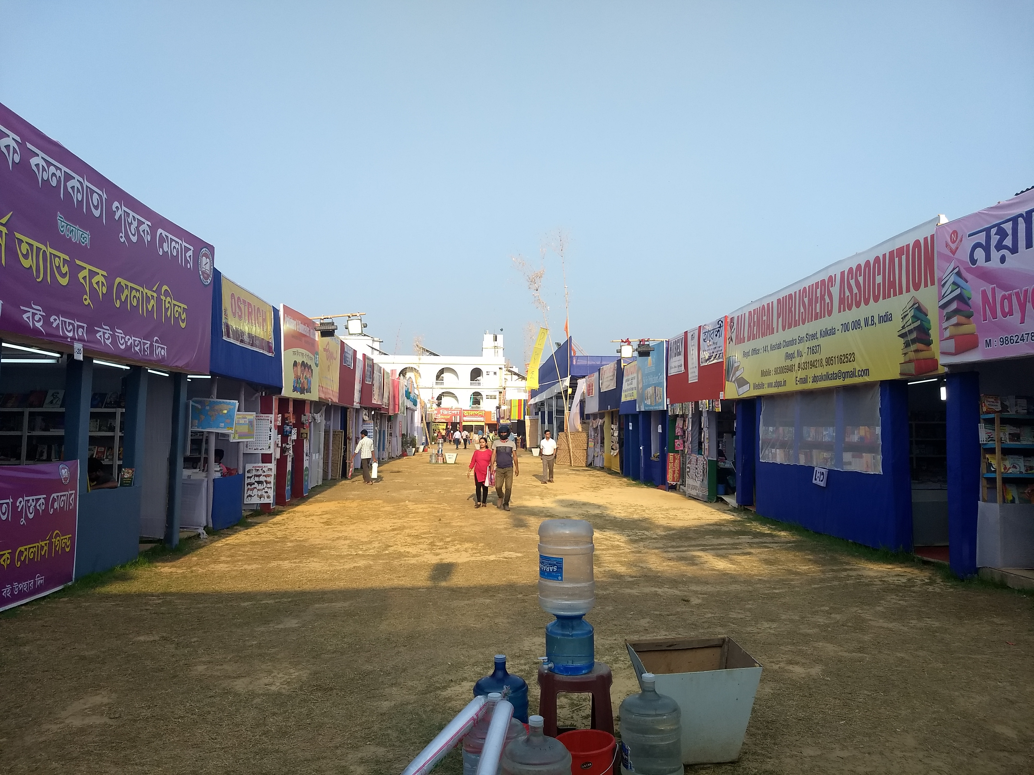 View of Agartala book fair 2018